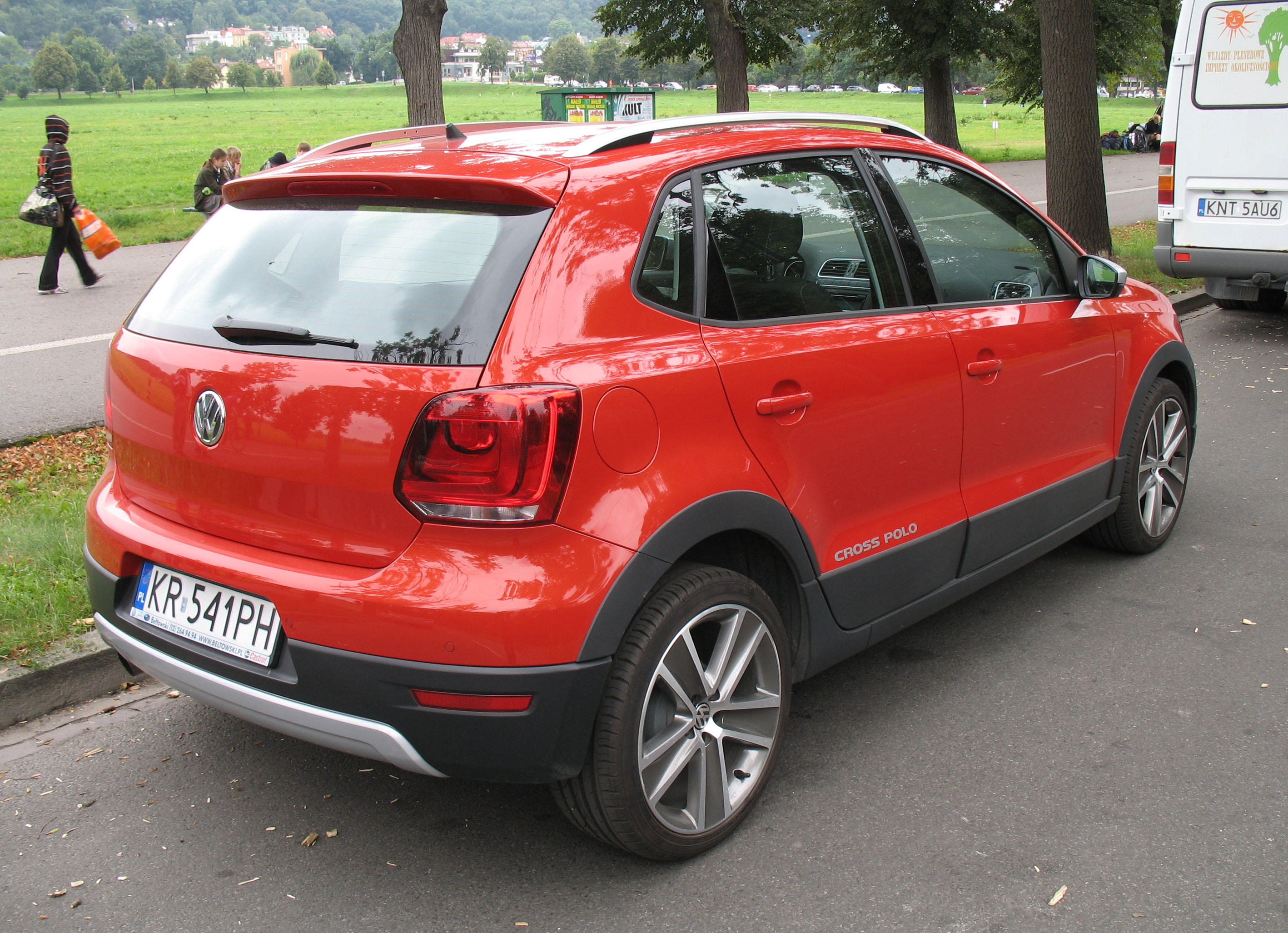 Red Volkswagen CrossPolo II car in Kraków, Poland.